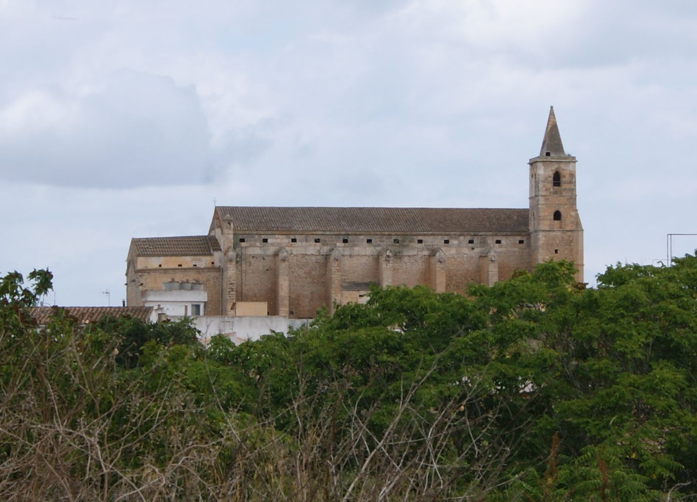 Church an Convent Saint Augustine in Fellanitx, Mallorca.